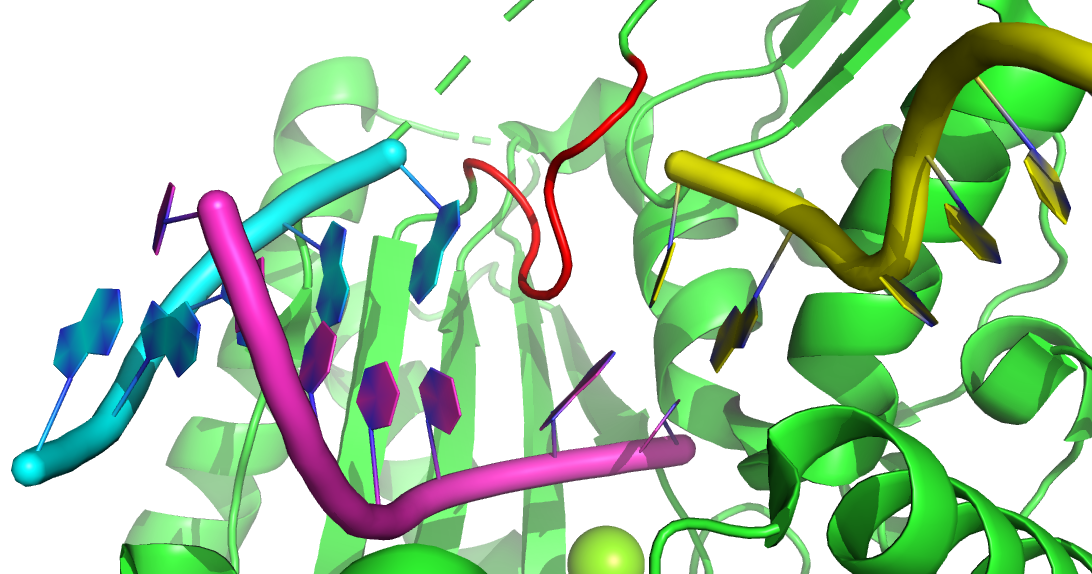 Terminal Deoxynucleic Transferase bound to three DNA strands demonstrating the active configuration of it's template dependant catalysis.